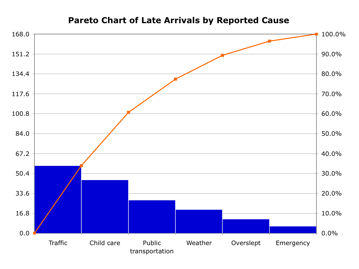 I created this file myself using Microsoft Excel and Microsoft PowerPoint. The data is purely hypothetical. Your chart is not a good one - especially for the categories you've depicted. The left side axis can only be whole numbers (discrete data), for how can you have a partial cause of traffic, or child care? Its actually a completely valid graph due to the fact that none of the data actually falls on a non-integer y-value. Thus, it is very difficult if not impossible to predict whether each category has a non-integer value.